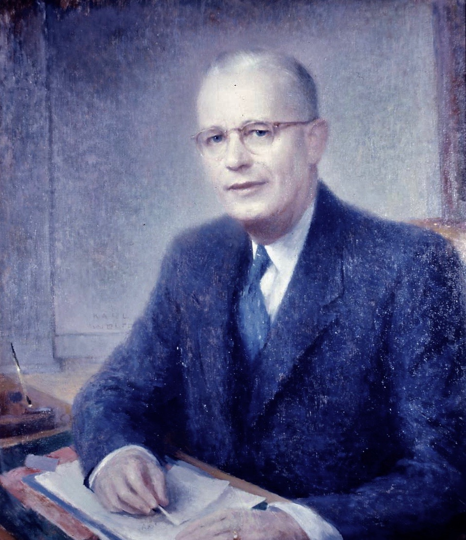 Collection: Governors Portraits photograph collection Call number: PI/1989.0008 System ID: 98805. Link to the catalog Governor Fielding L. Wright, Nov. 2, 1946 to Jan. 22, 1948, Jan. 22, 1948 to Jan. 22, 1952. Please see our profile page for information on ordering. Scanned as tiff in 2008/09/29 by MDAH. Credit: Courtesy of the Mississippi Department of Archives and History